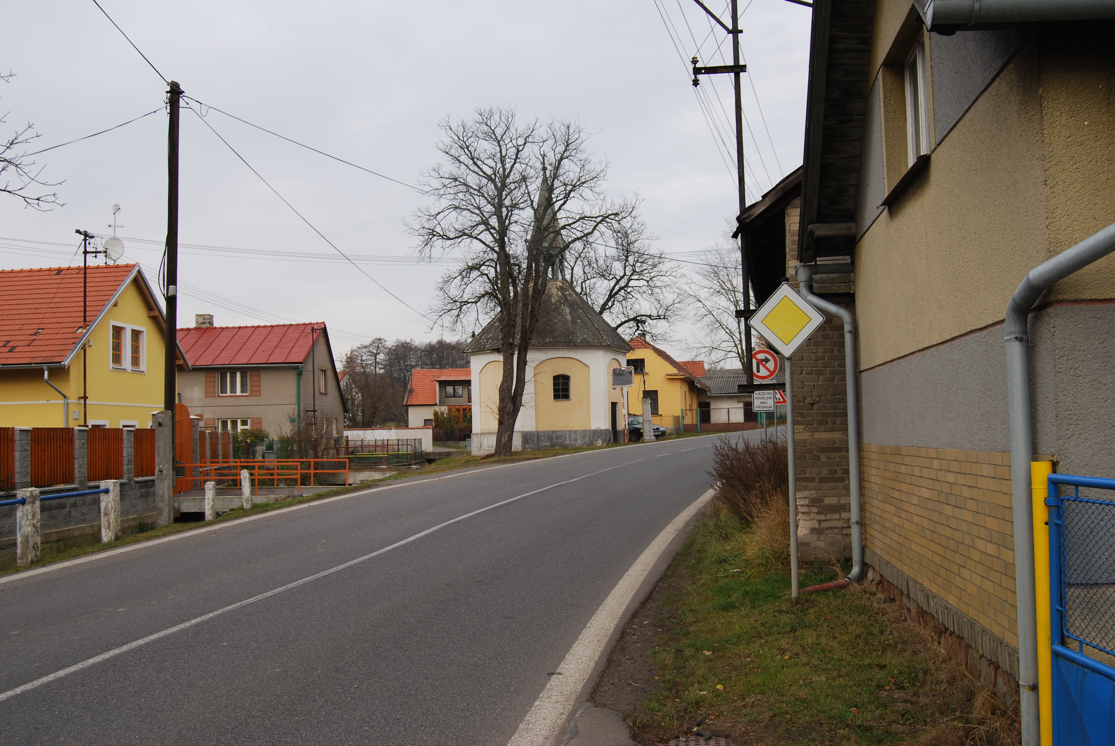 Vranovice village in Příbram District, Czech Republic.